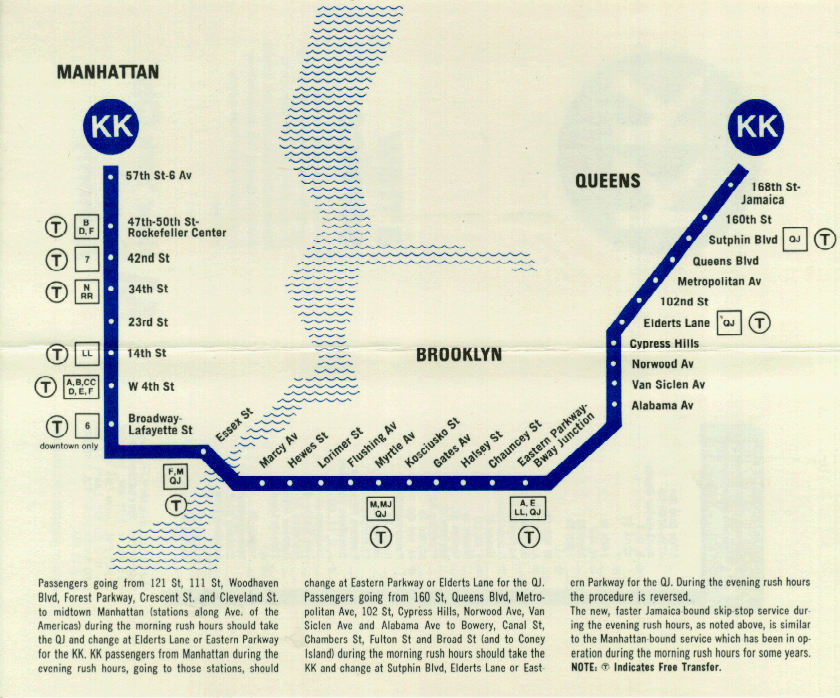 This was part of a brochure handed out by the New York City Transit Authority announcing the introduction of KK service on July 1, 1968.